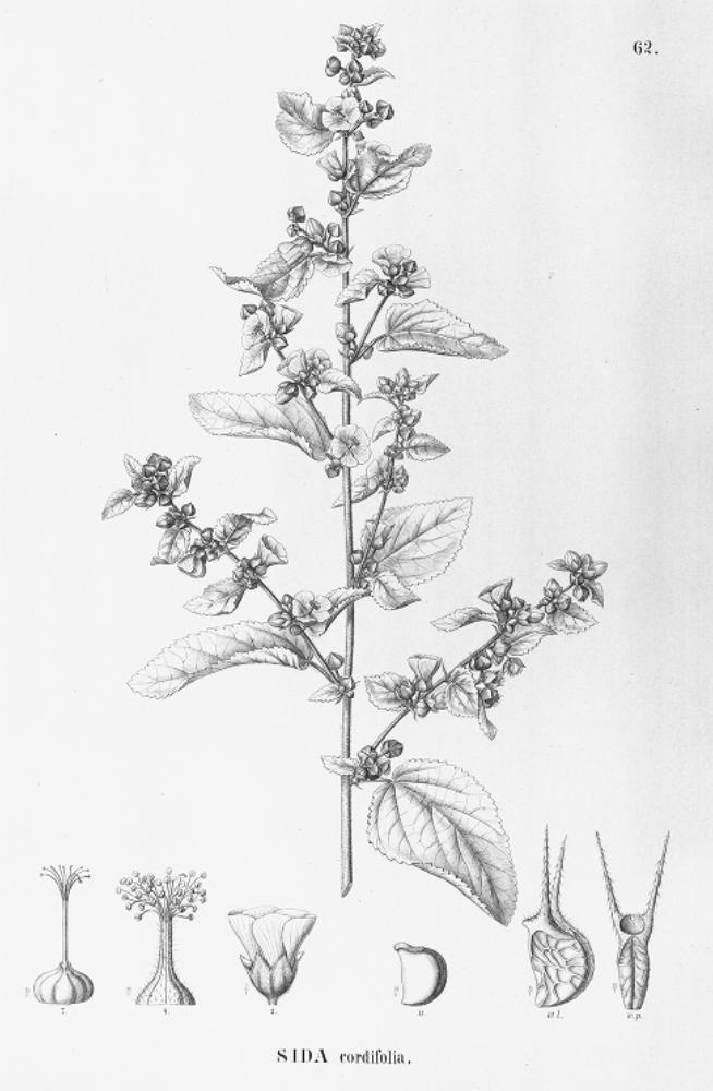 Illustration of Sida cordifolia